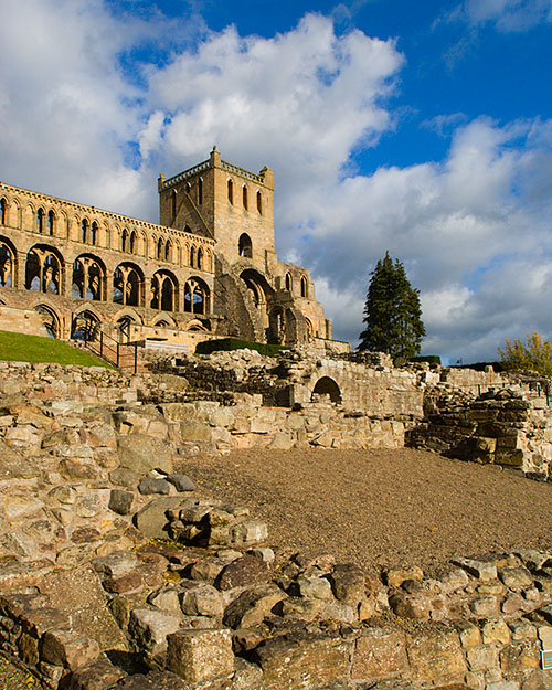 Jedburgh Abbey with excavations of the precincts © David Kilpatrick Davidkilpatrick 12:21, 23 February 2007 (UTC)